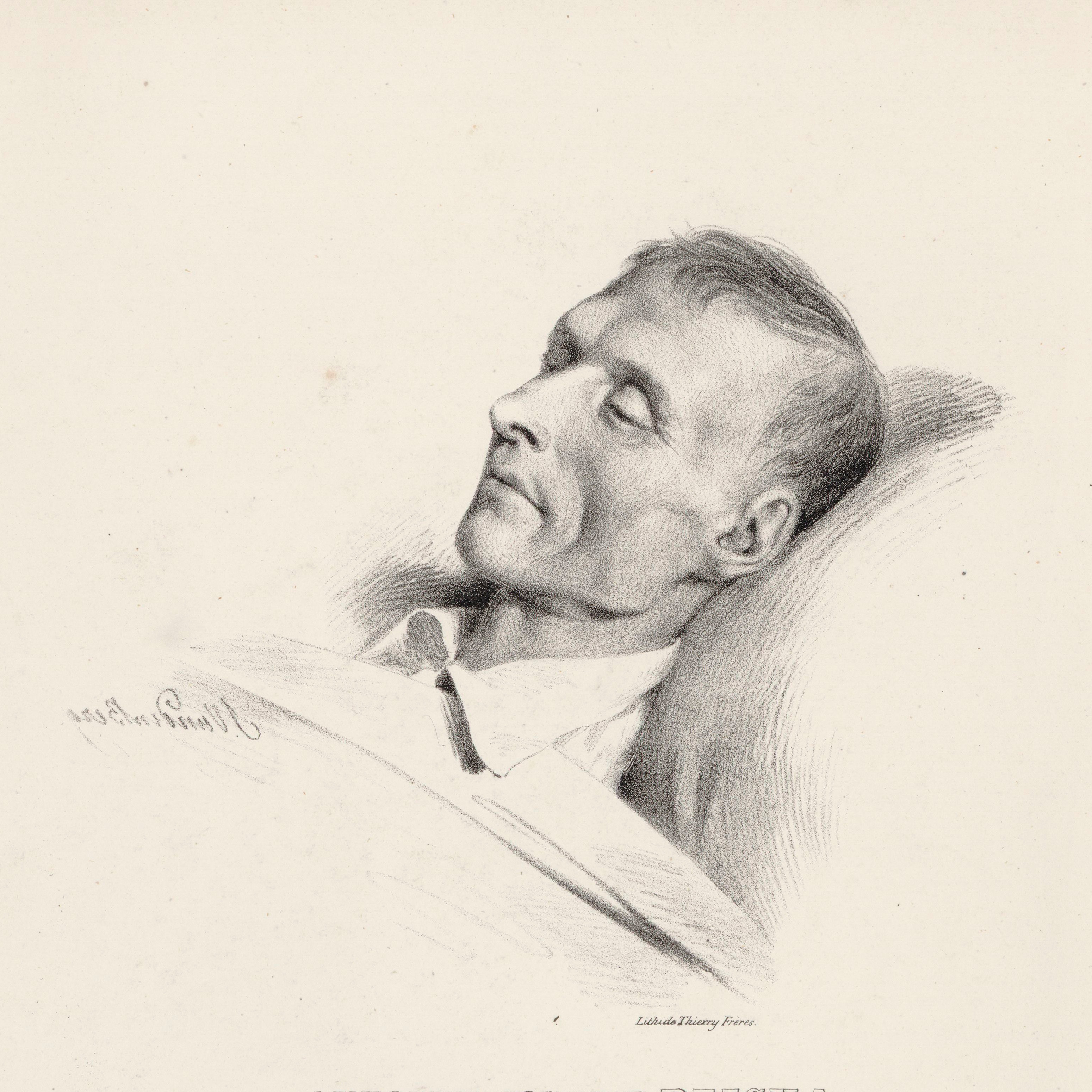 Czech musicologist and composer Anton Reicha (1770-1836) on his death bed.